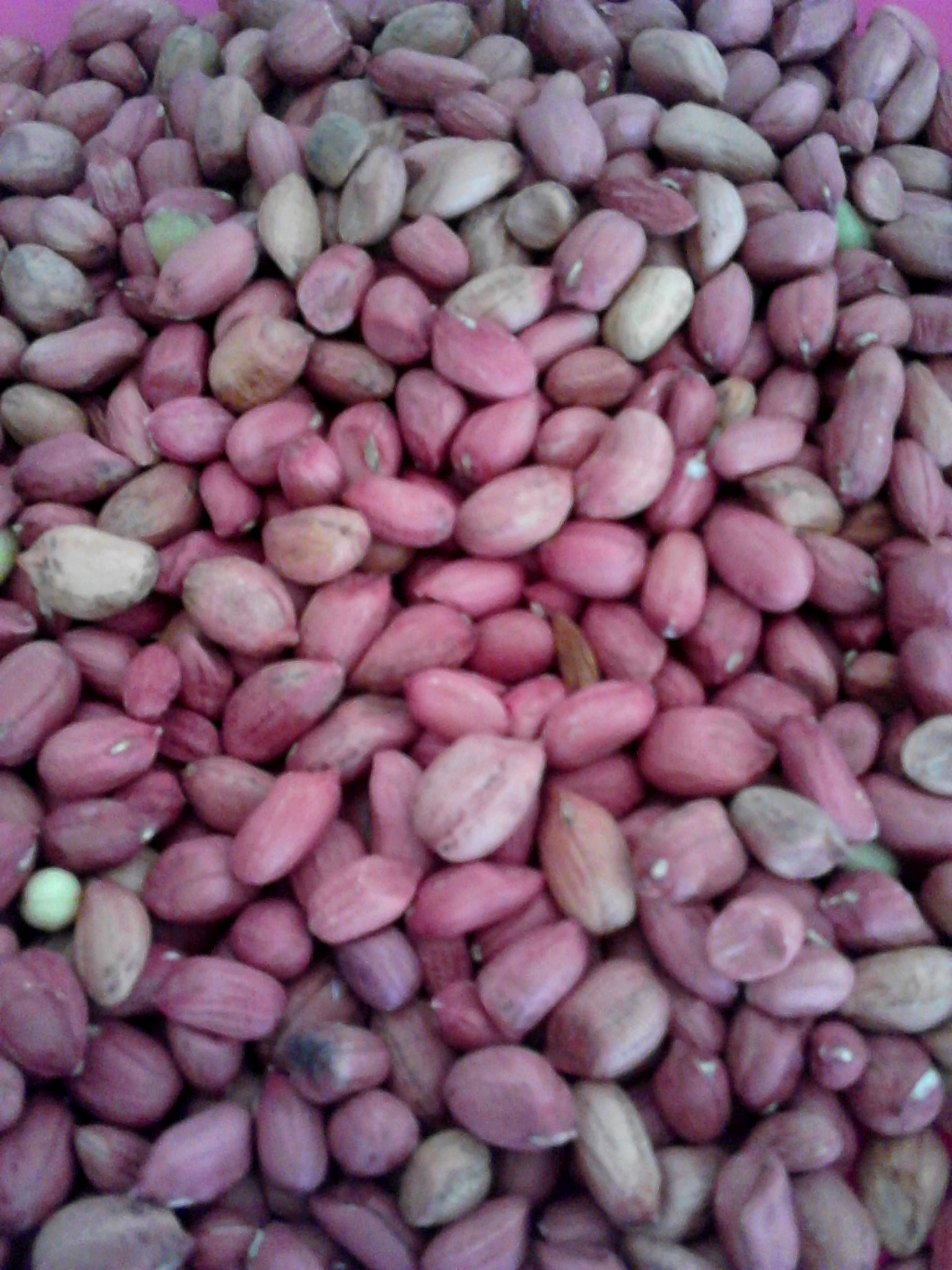 Ground Nuts This is an image of food from Uganda